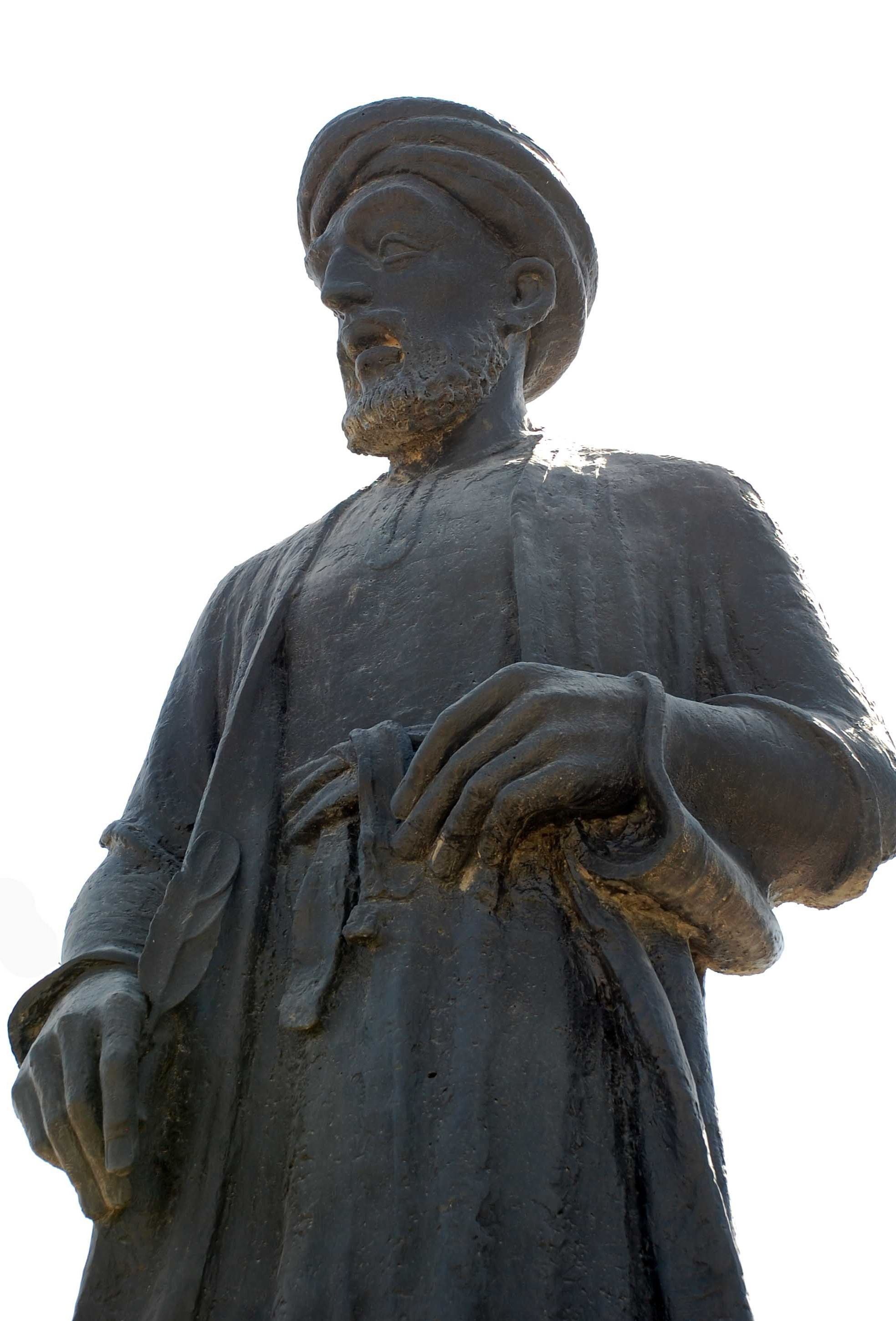 statue of Al-Khalil ibn Ahmad al-Farahidi in Basra